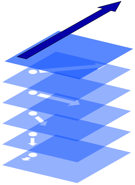 Ekman spiral